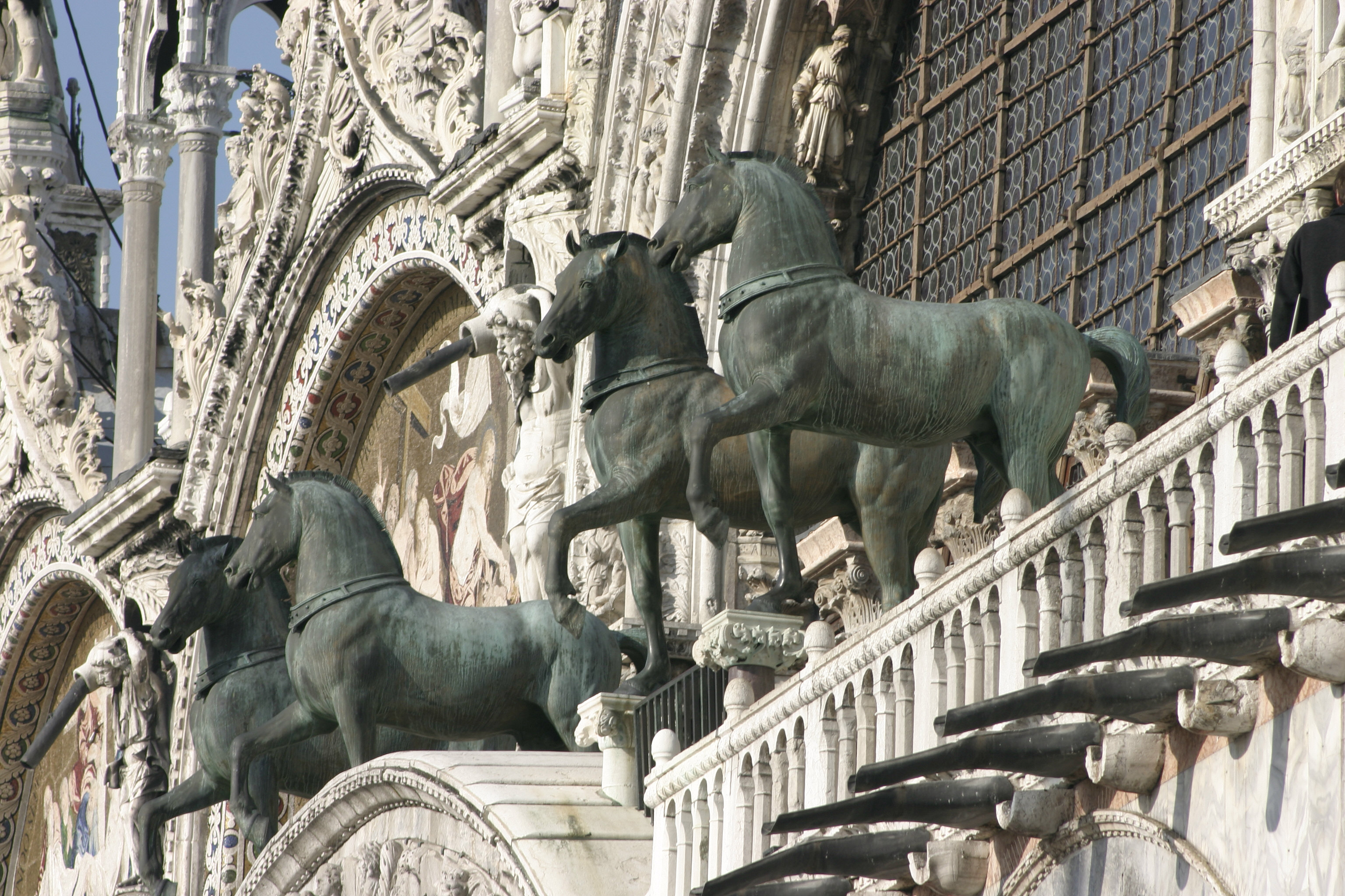 Venice - St. Marc's Basilica – The horses